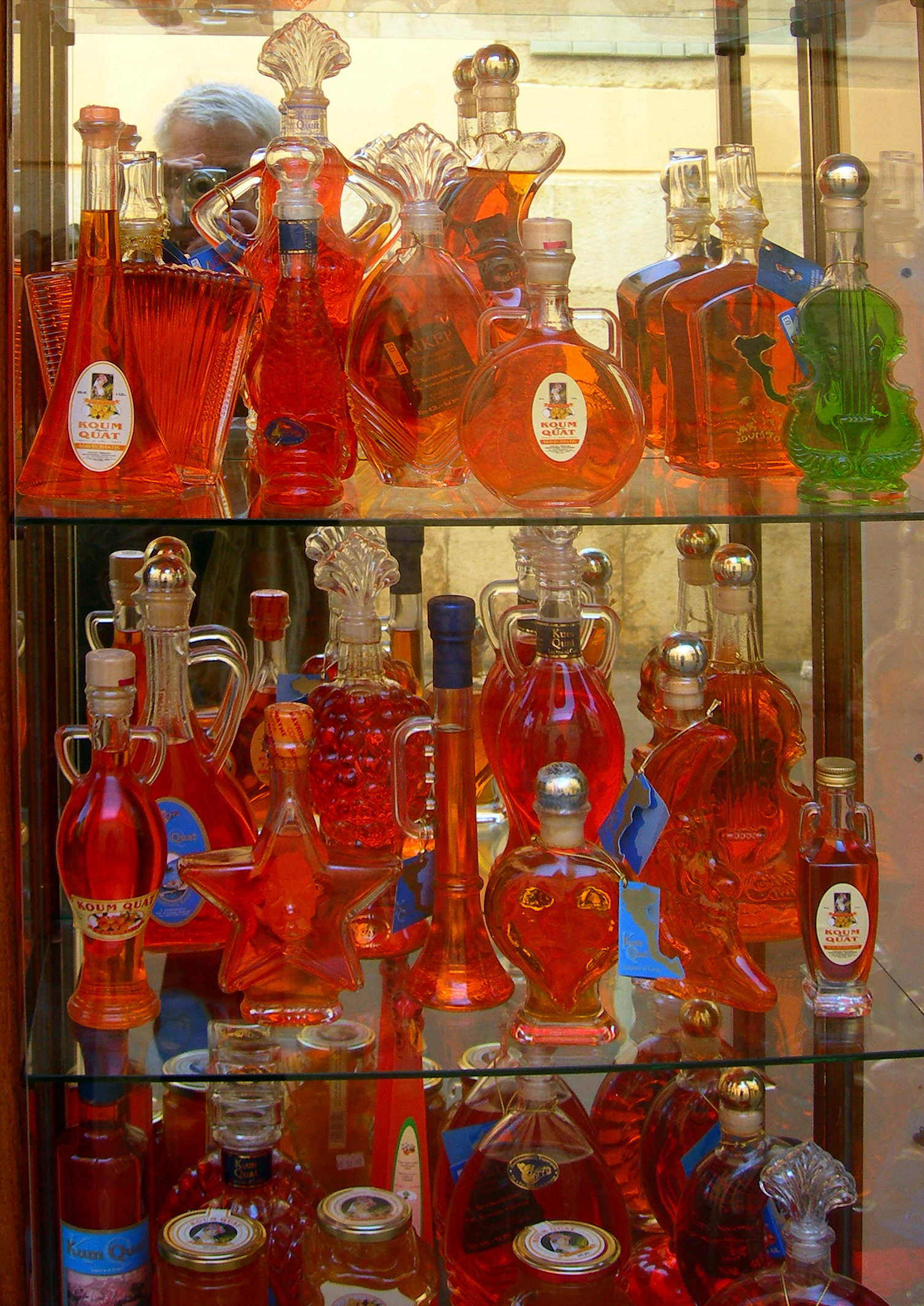 Famous Koum Quat liqueur from Cirfu, Greece